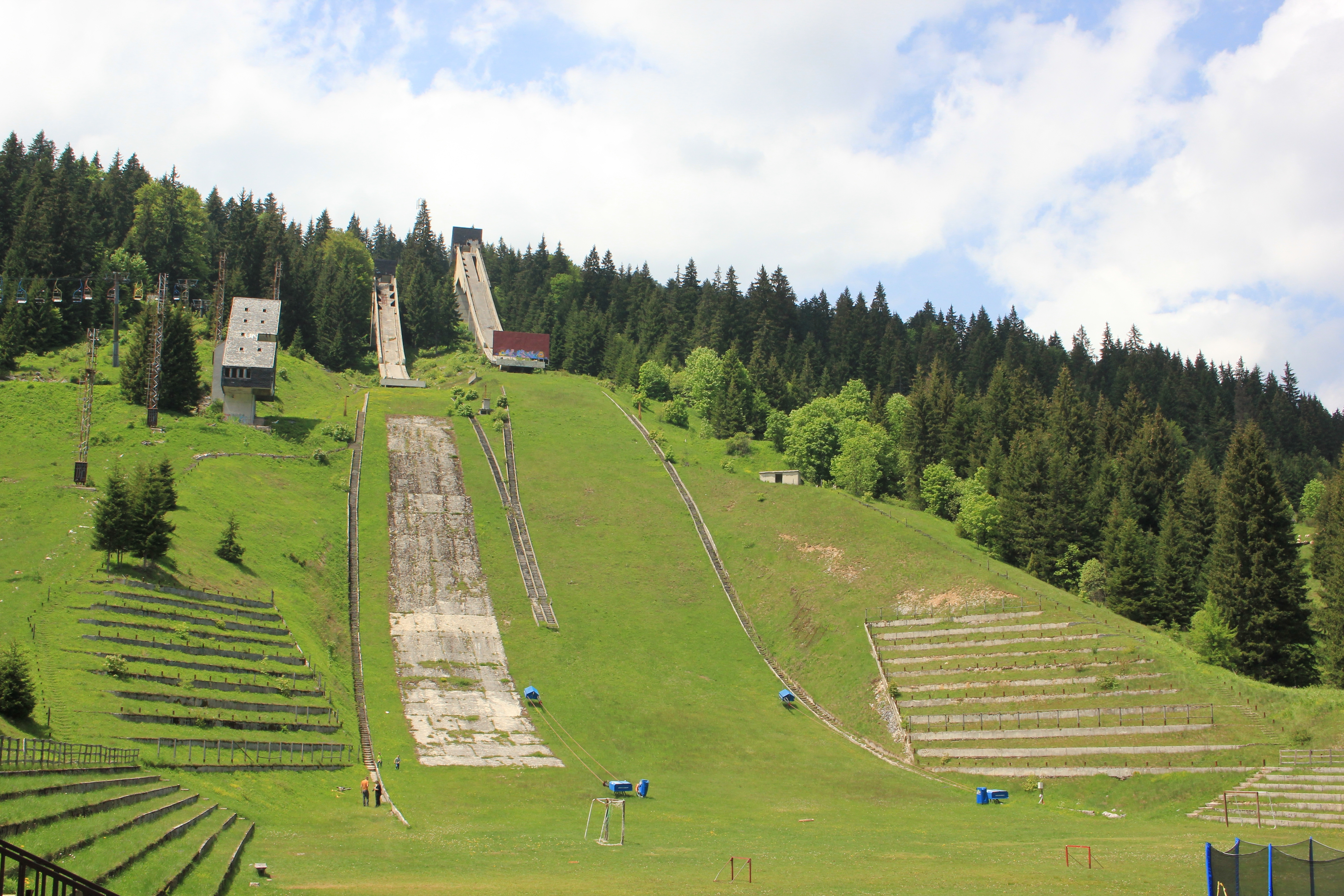 Igman Olympic Jumps near Sarajevo.